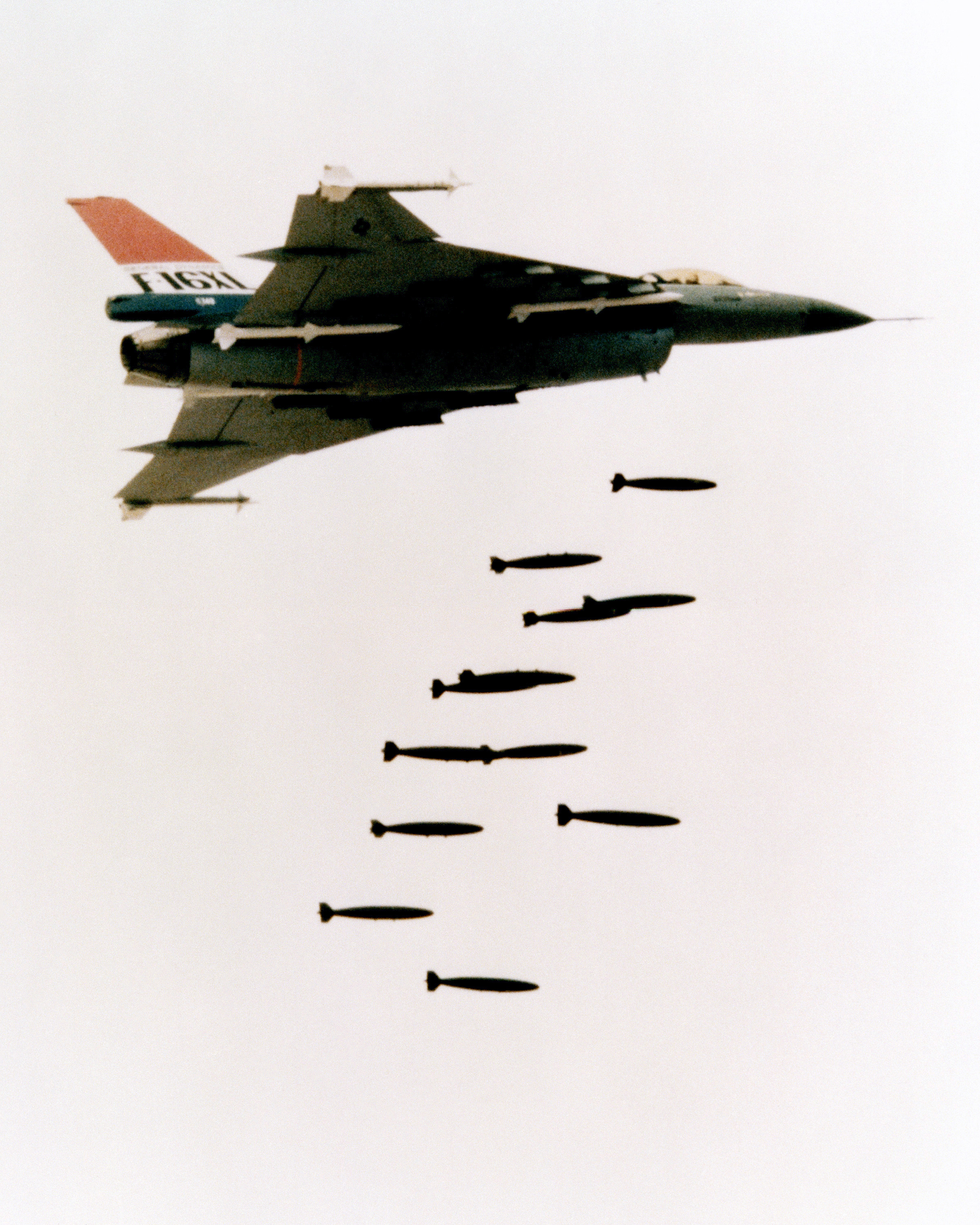 An air-to-air right underside view of the F-16XL Fighting Falcon prototype aircraft dropping several bombs while on a demonstration flight during the Farnborough Air Show. The aircraft is also armed with AIM-9 Sidewinder missiles on the wing tips and AIM-7 Sparrow missiles on the undercarriage.